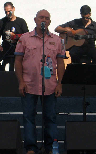 Vocalist and composer of mixed Middle Eastern/Latinic-inspired sounds.